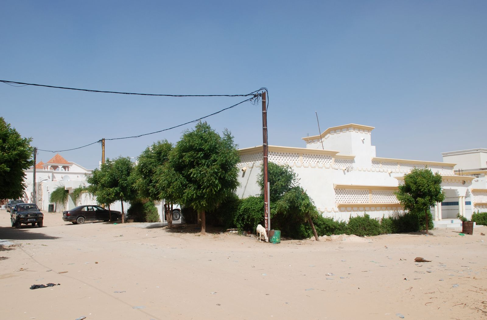 Nouakchott, Mauritania, villas north of center in Las Palmas